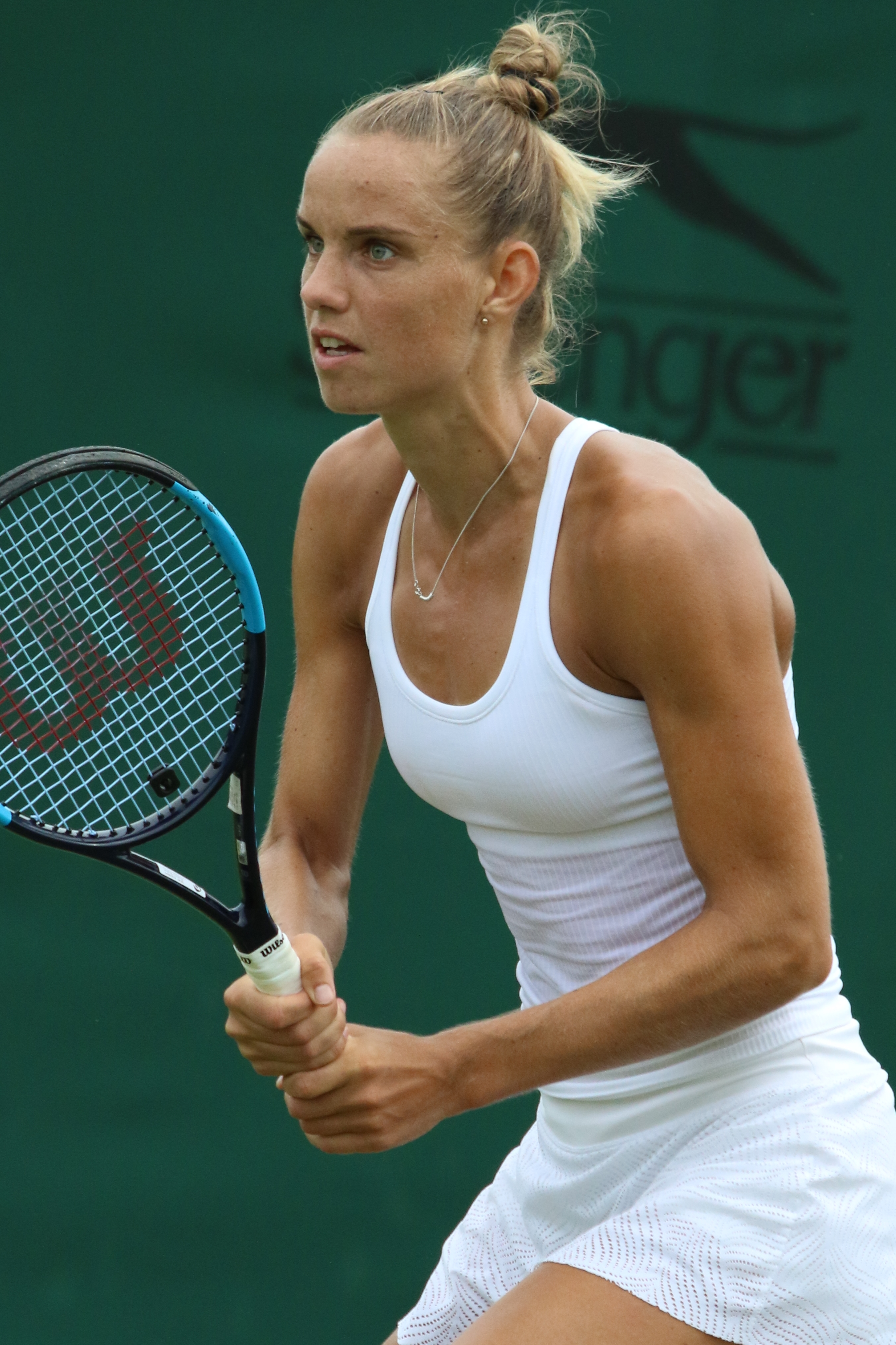 2019 Wimbledon Qualifying Tournament.